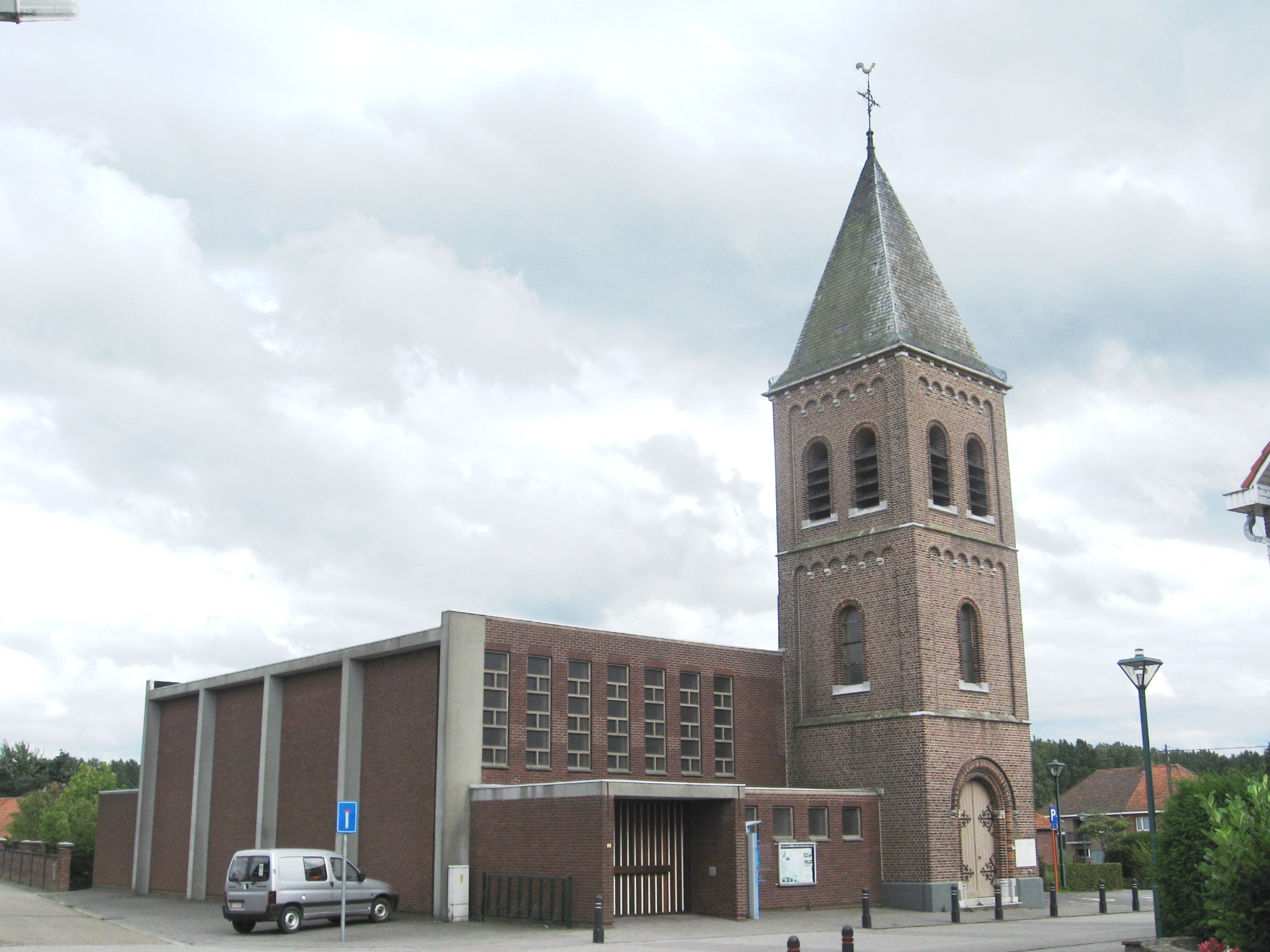 Church of the Assumption of the Blessed Mary in Wijshagen, Meeuwen-Gruitrode, Limburg, Belgium